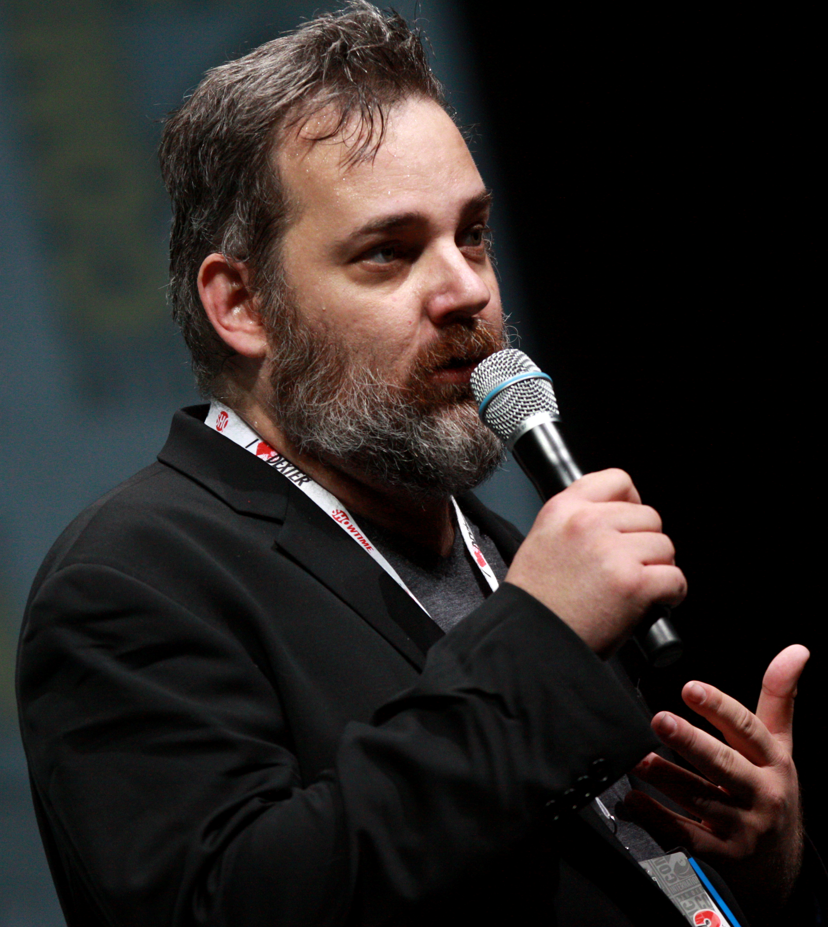 Dan Harmon at the 2013 San Diego Comic Con International in San Diego, California.